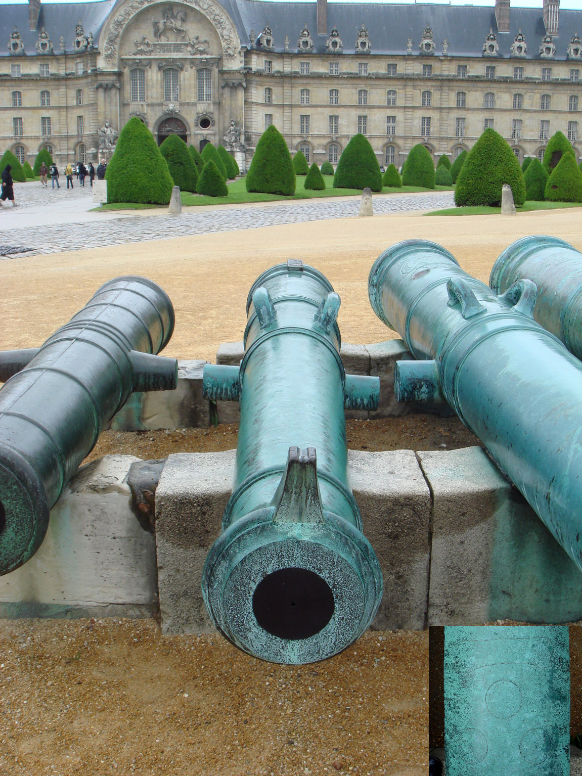 Some of the cannons captured the Bombardment of Shimonoseki. Les Invalides, Paris.